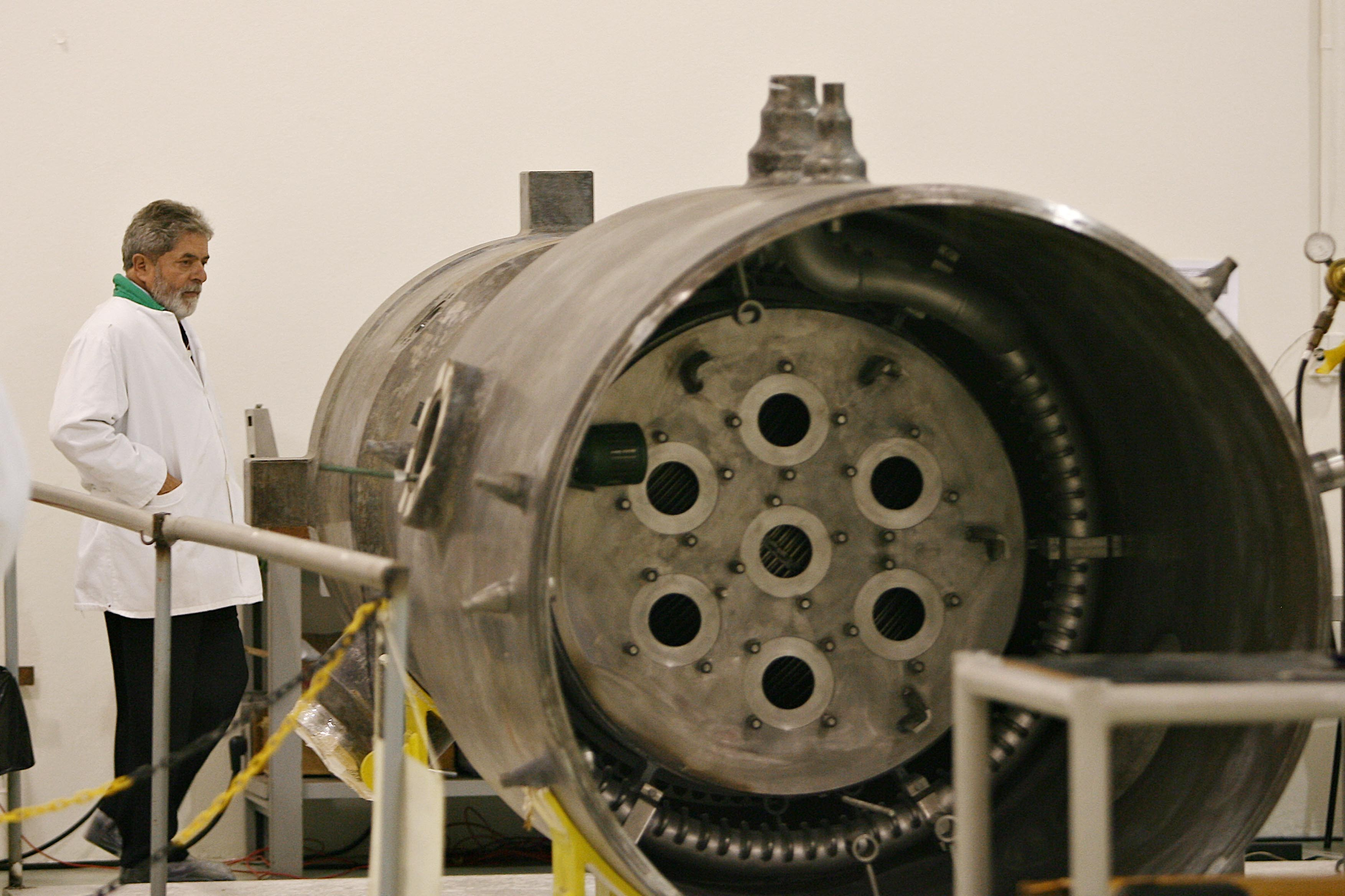 President Lula visits the Nuclear-electric Generation Laboratory (Labgene) where steam generators are used